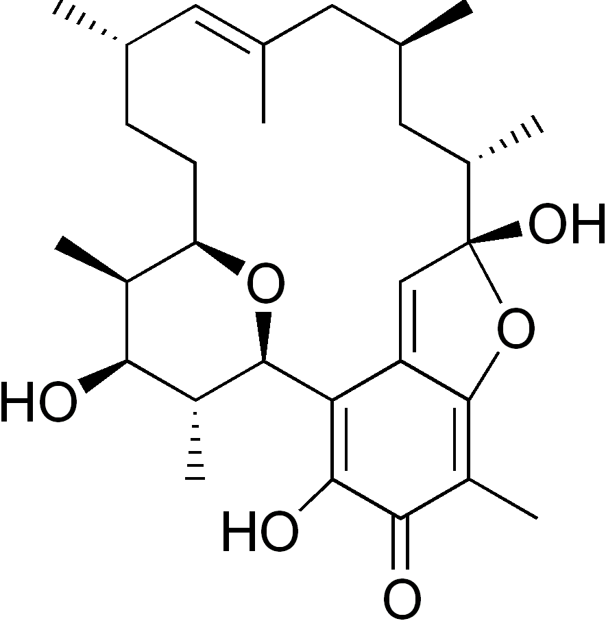 chemical structure of kendomycin